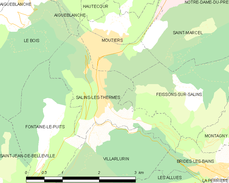 Map of French municipality Salins-les-Thermes